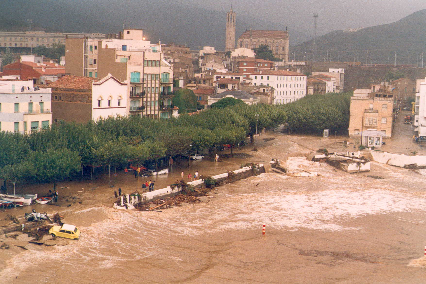 Catalunya, Alt Empordà, Portbou on 1988.